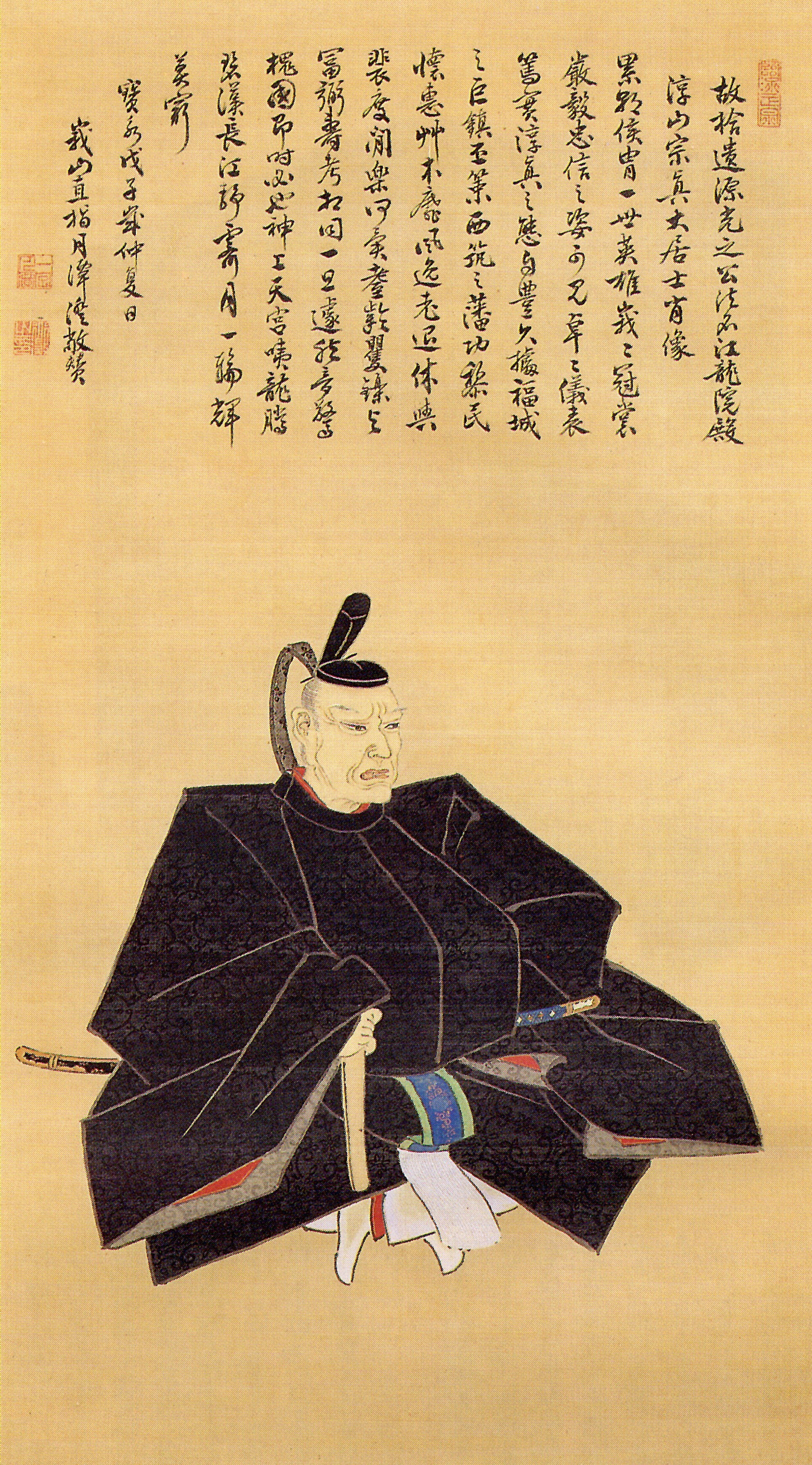 Load of,3rd.name Kuroda Mituyuki.